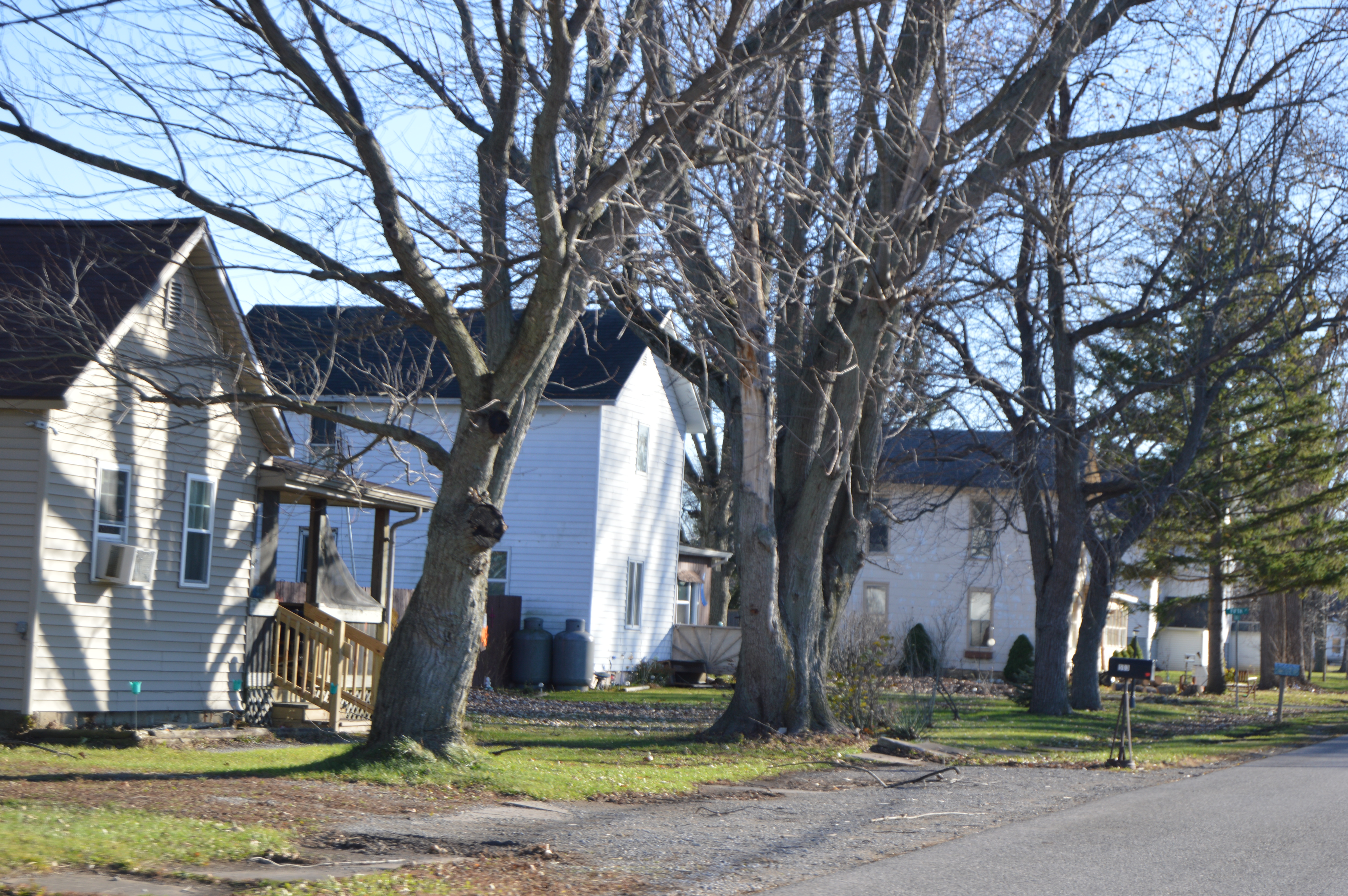 Houses on the eastern side of Main Street north of Fifth Street in Cecil, Ohio, United States.